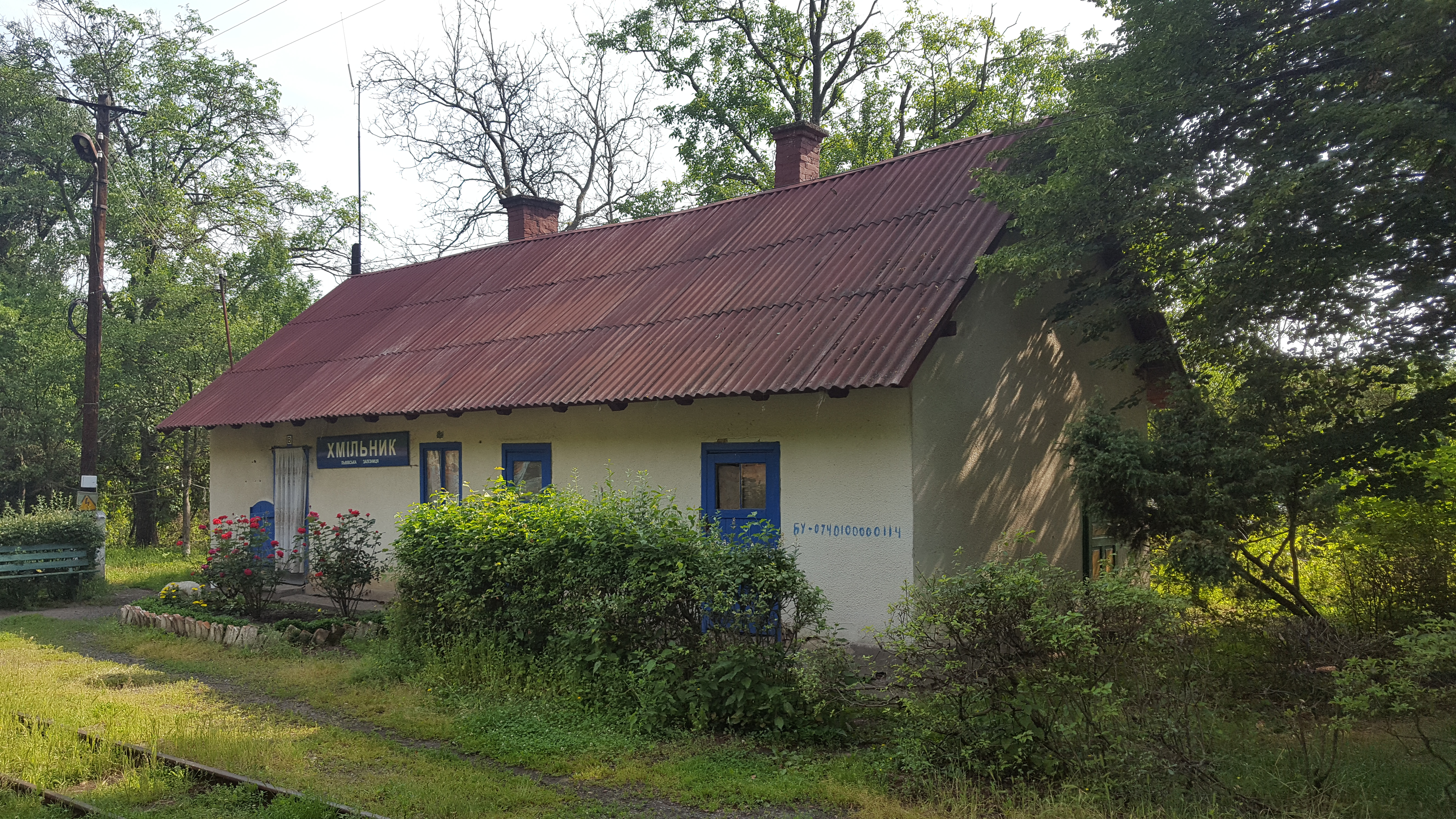 Building of a train station in Khmilnyk (Хмільник), Zakarpattia, Ukraine, on a narrow-gauge (Боржавська вузькоколійна залізниця).